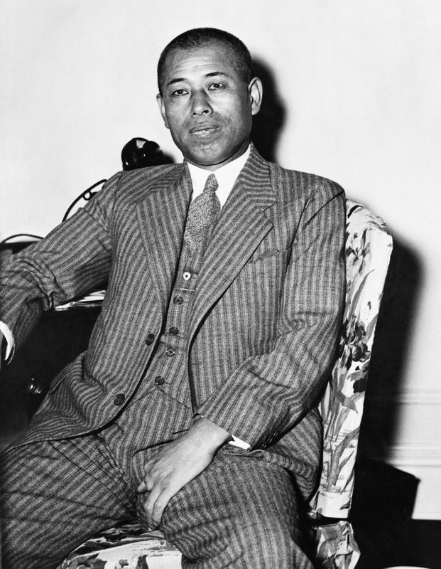 Foreign Office Political Intelligence Department (pid) Second World War Photograph Library- Classified Print Collection Portrait of Japanese Admiral Isoroku Yamamoto, wearing civilian clothes. Taken at the Hotel Astor in New York on 10 August 1934.